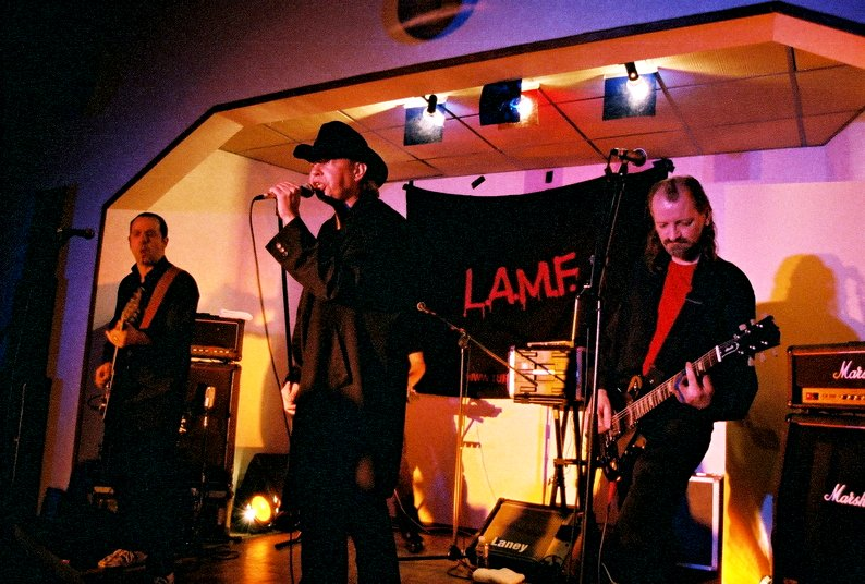 Metal Urbain @ Trianon - Lion-sur-Mer